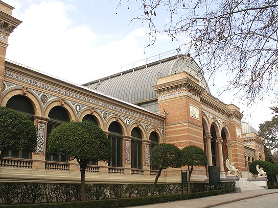 Palacio de Velázquez, in the Retiro Park in Madrid (Spain). Projected in 1881 by architect Ricardo Velázquez Bosco and built from 1881 to 1883.